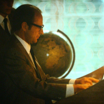 Joachim Grubich behind the organ keyboard in Krakow in 1985